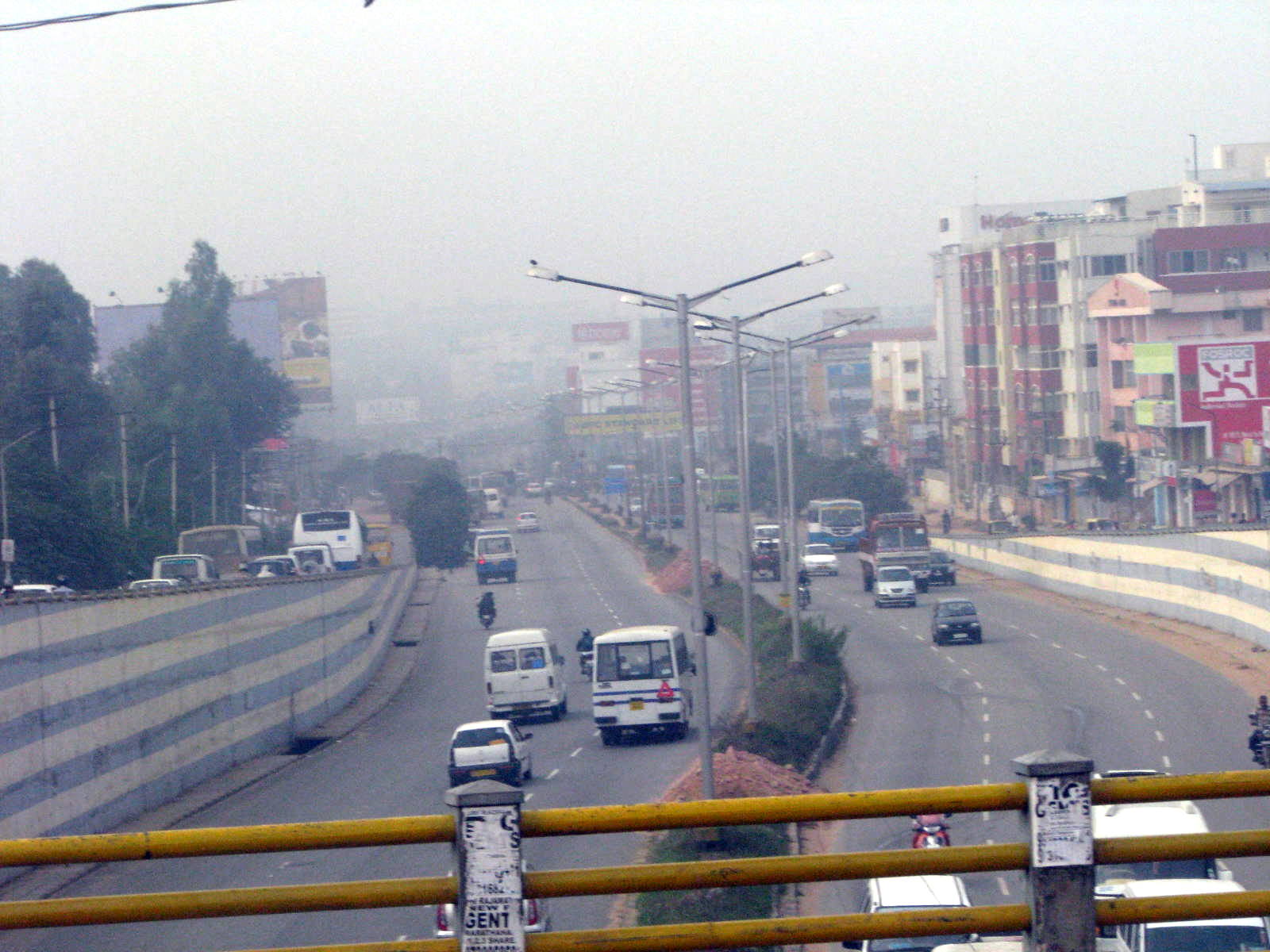 View from Marathalli Bridge